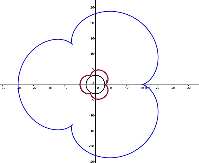 Involute Epicycloid